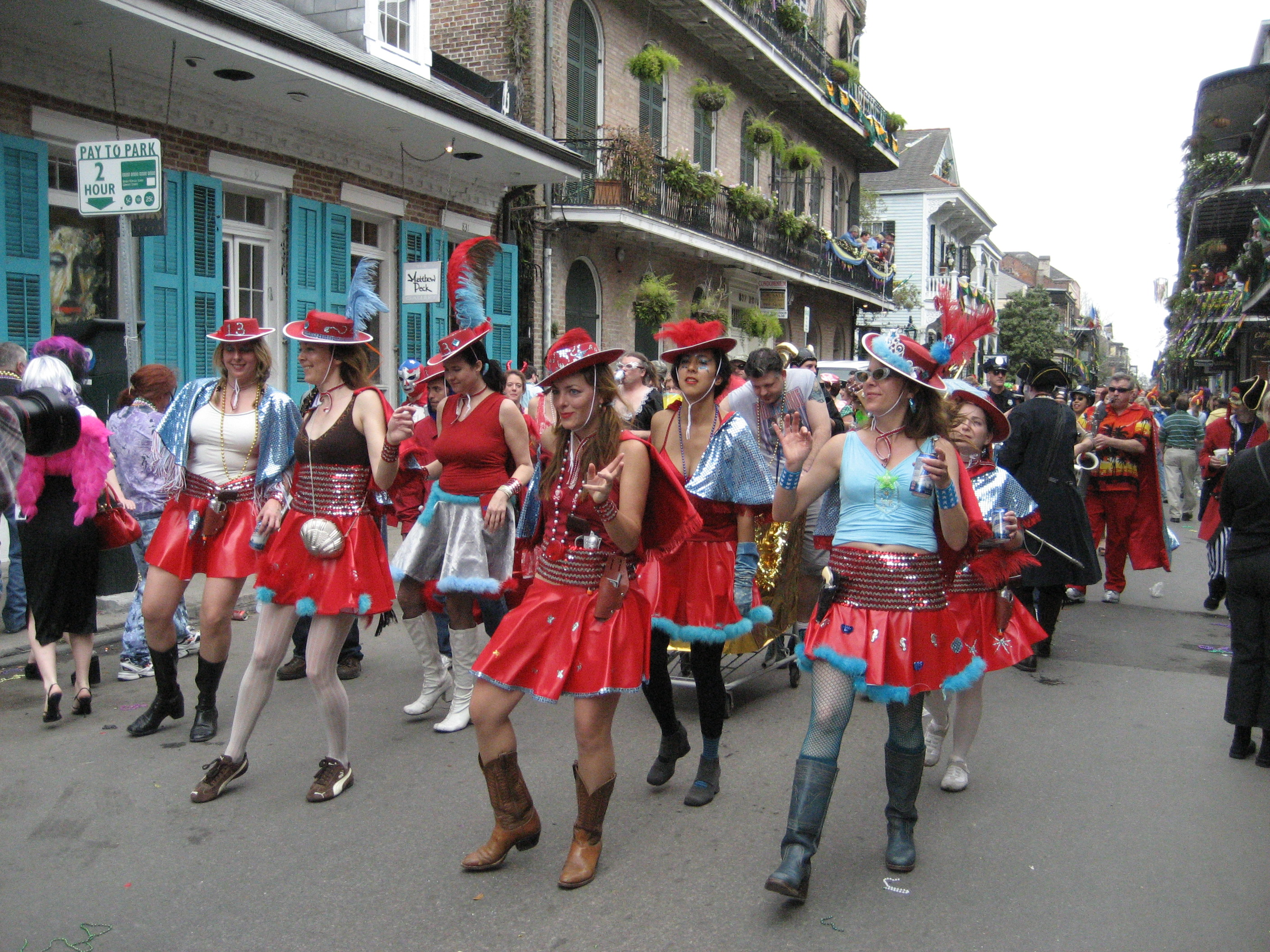 New Orleans Mardi Gras: Small parading group dancing in the street with band in the French Quarter